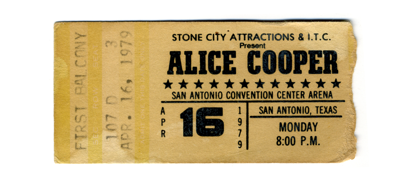 Ticket for Alice Cooper concert,1979, San Antonio Convention Center Arena